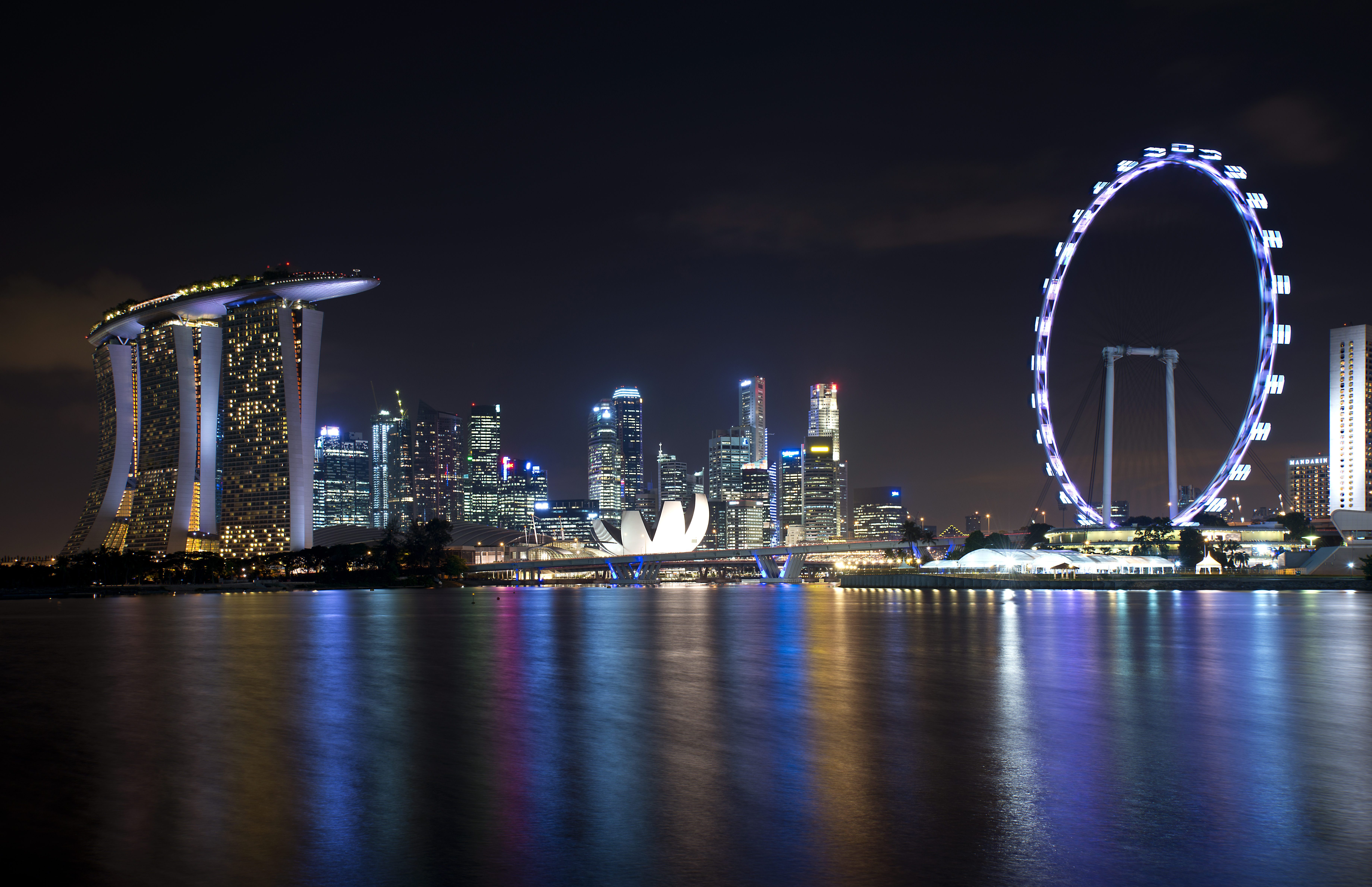 A night view of the Singapore skyline viewed from Gardens by the Bay East.